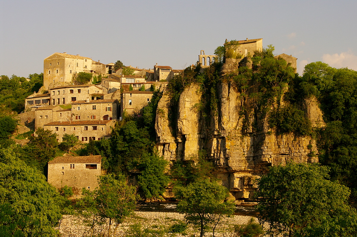 The village of Balazuc, on the Ardèche river.